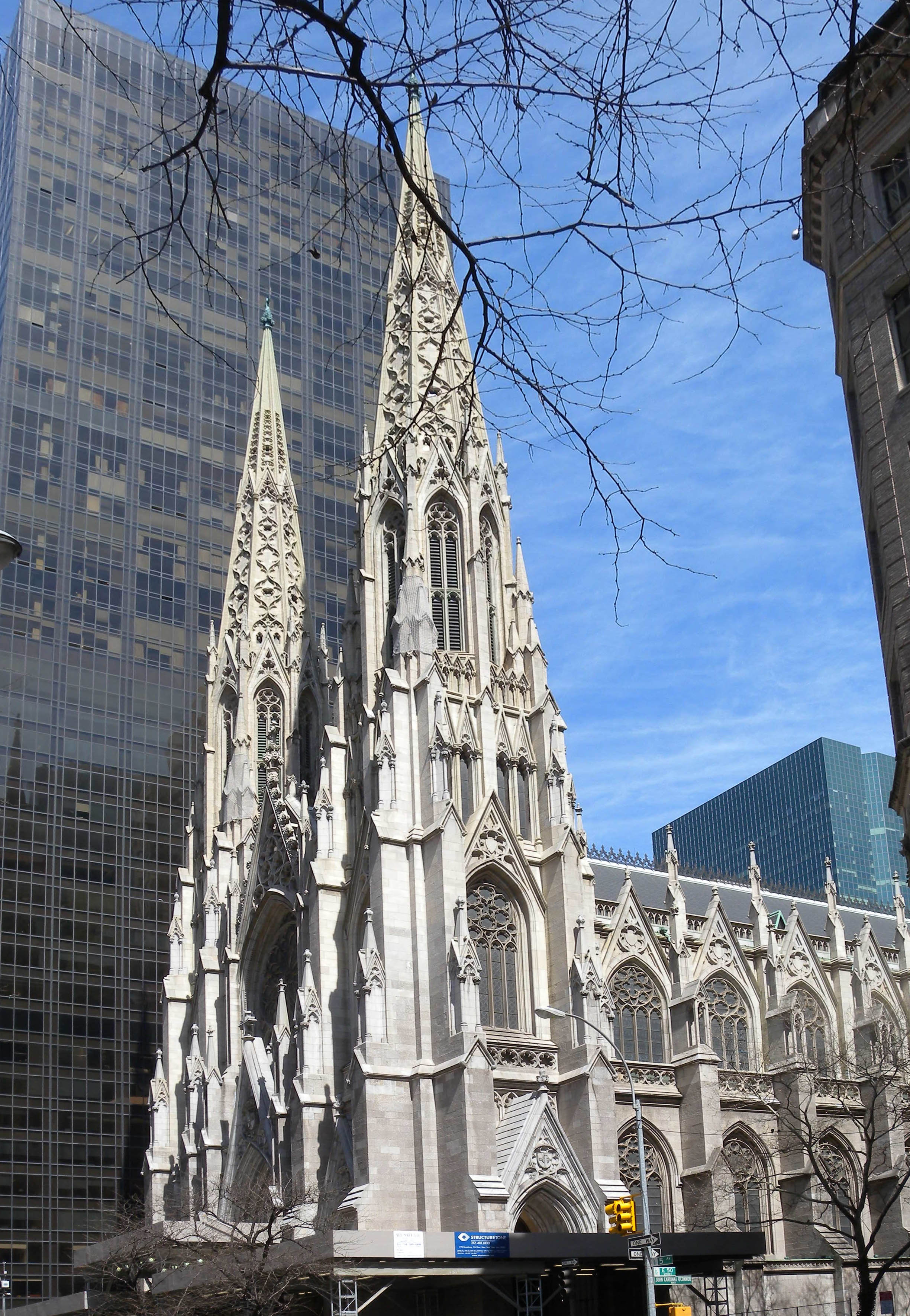 Looking northeast across 5th Ave and 50th St at St Patrick's Cathedral on a sunny afternoon.